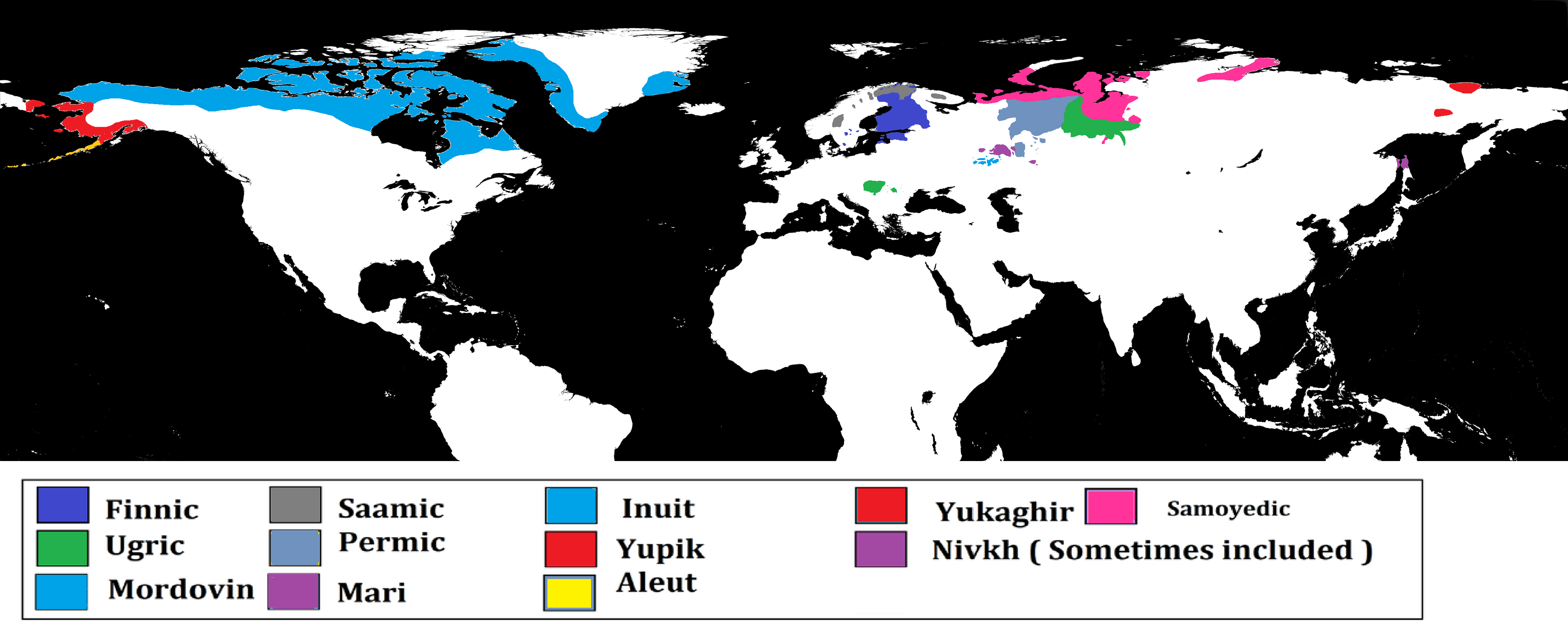 Uralo siberian fixed